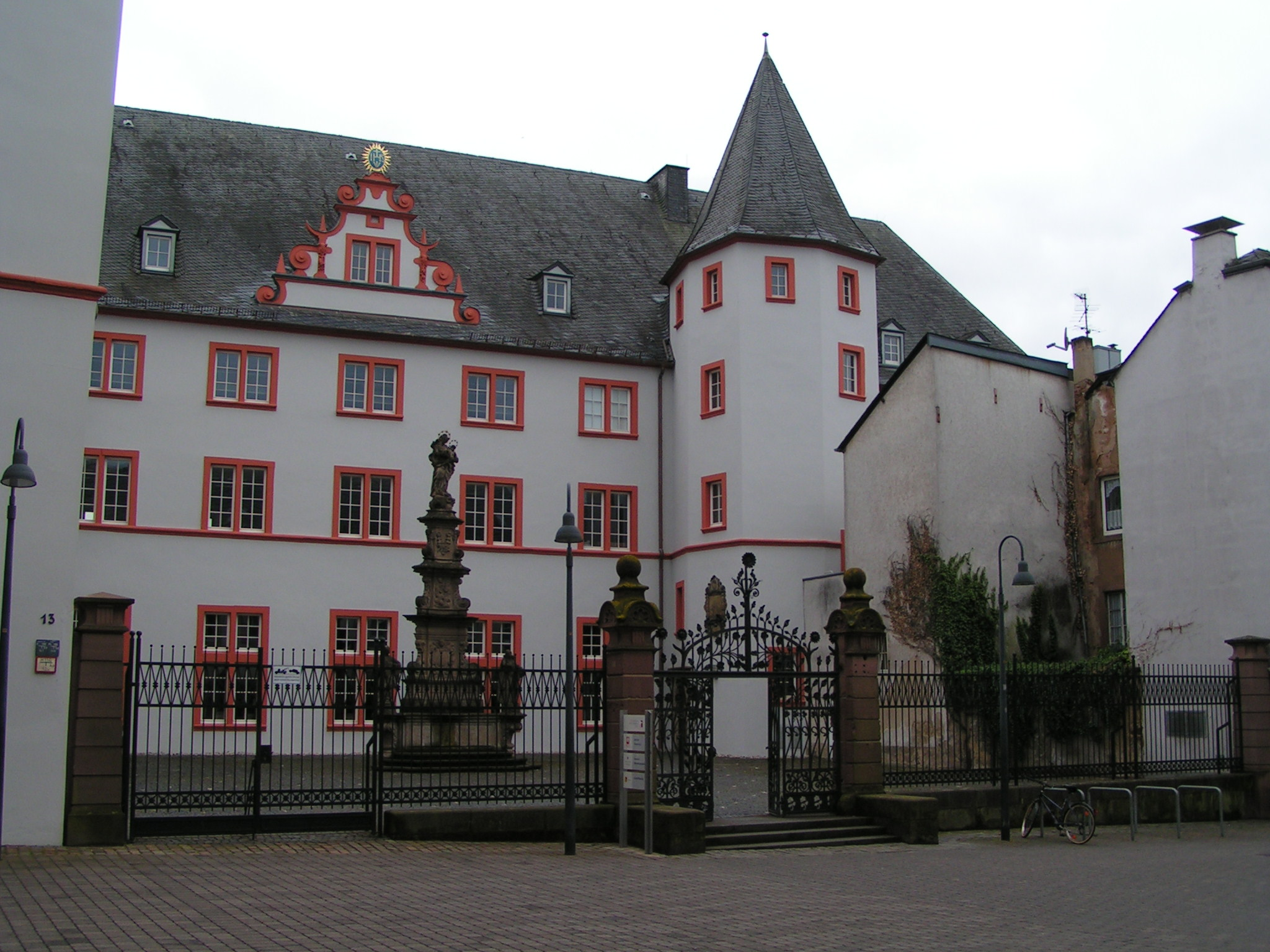 Priesterseminar, Trier, Germany